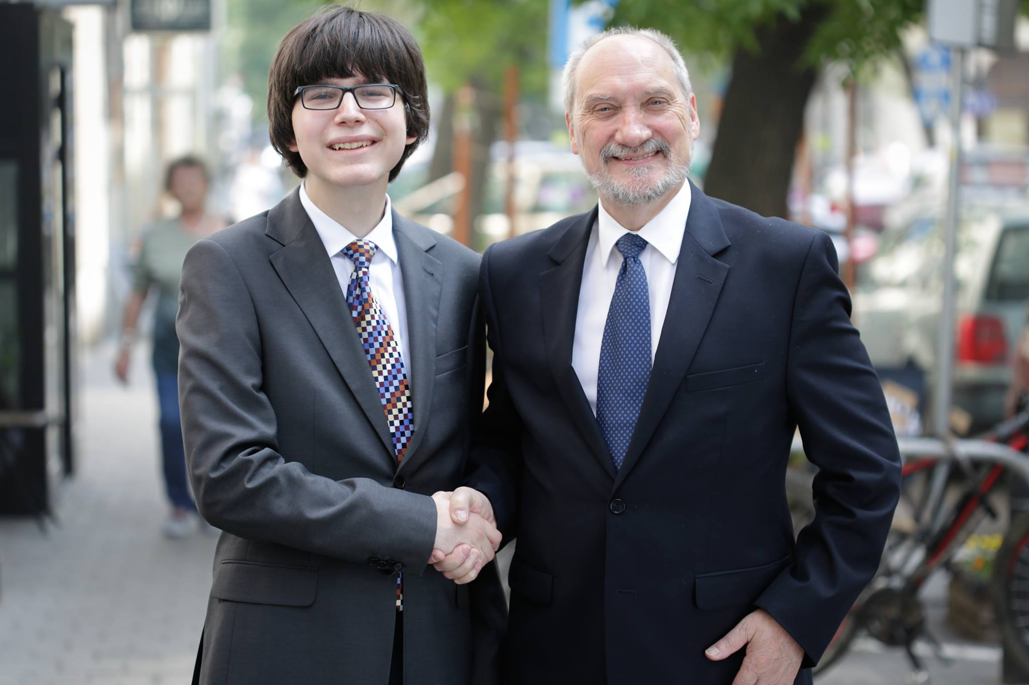 Antoni Macierewicz, Minister of National Defence, and Edmund Janniger, Advisor to the Minister of National Defence